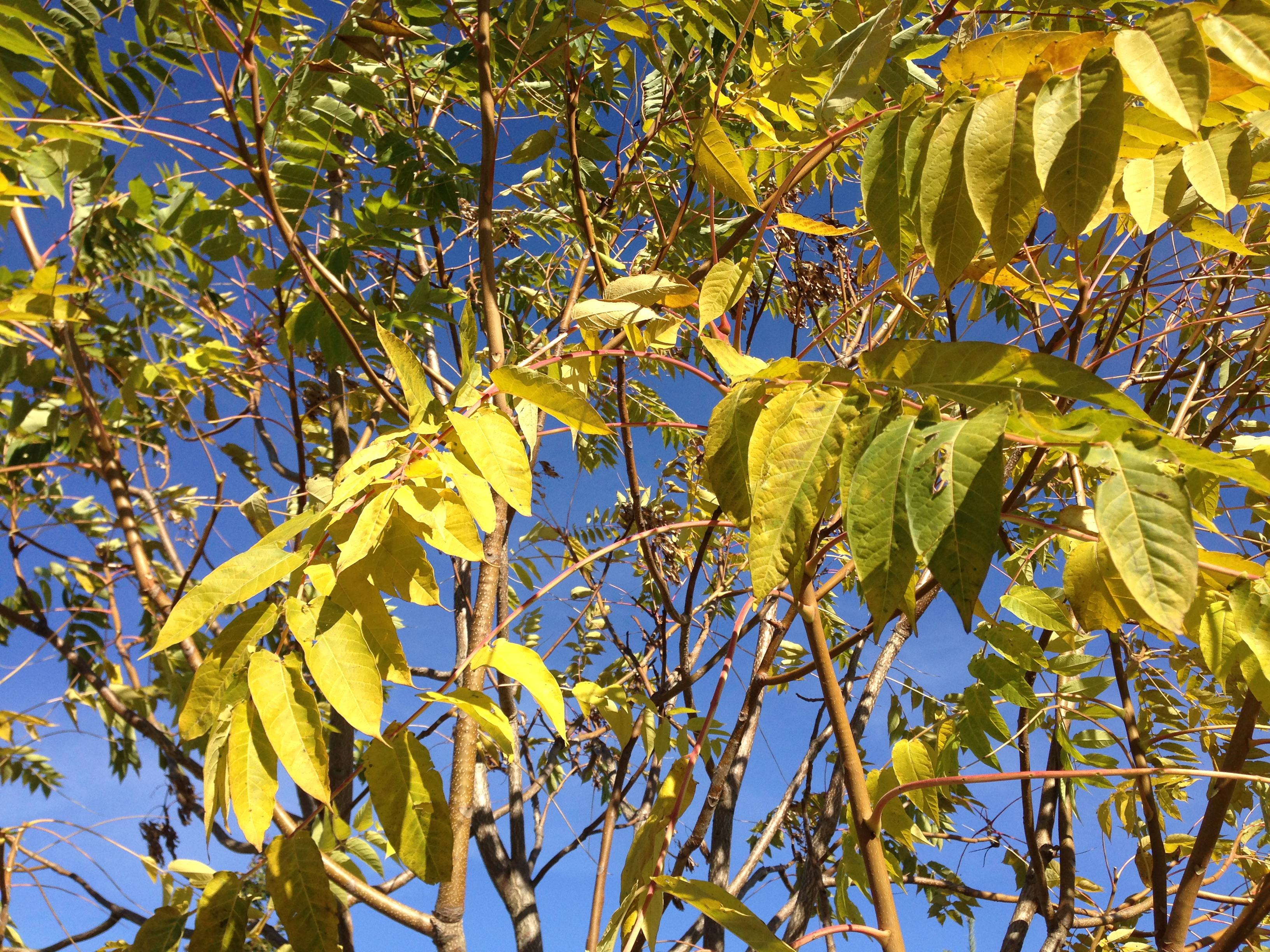 Tree of Heaven foliage during autumn along Lower Ferry Road in Ewing, New Jersey